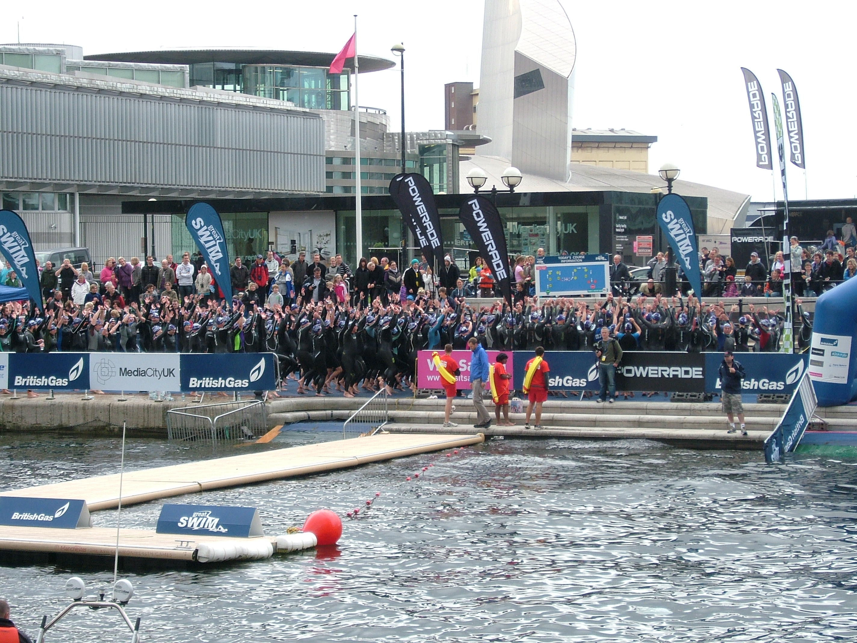 The Salford Quays, the former Manchester Docks on the Manchester Ship Canal have been redeveloped. They played host in 2010, to a one Open water swimming event,the British Gas Great Swim, from No 9 Basin, through the Mariners Canal to the Salford Watersports Centre in Basin 8. Water temperature 14.5C. Above 3000 participants. All doing stretch warm up exercises